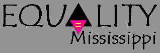 This is the original logo of Equality Mississippi, a now defunct gay rights organization in the state of Mississippi. The organization was founded by me in March 15, 2000 and shutdown in 2009. I designed this logo and as the founder and sole executive director of the organization, release it per the license below.